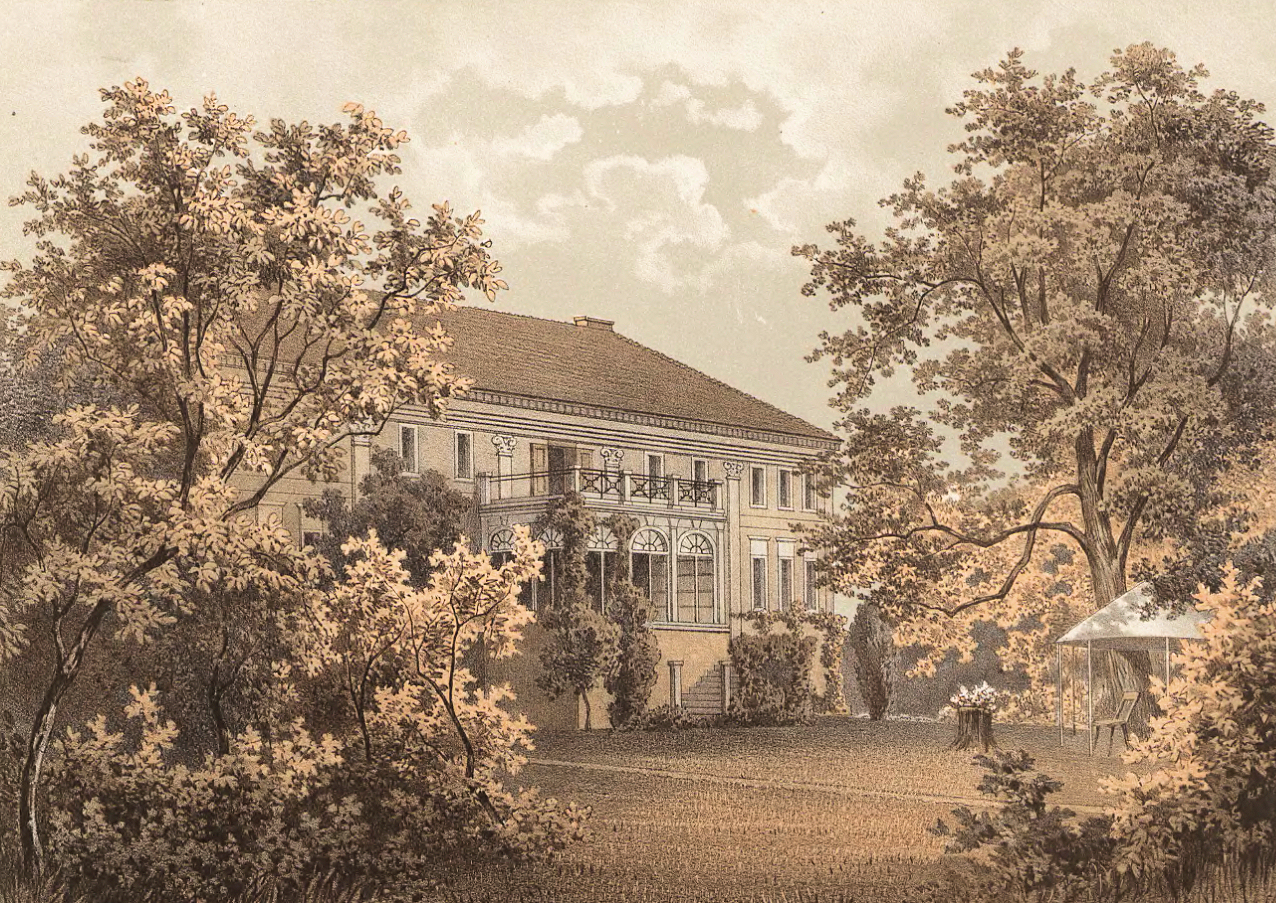 Palace in Czerników